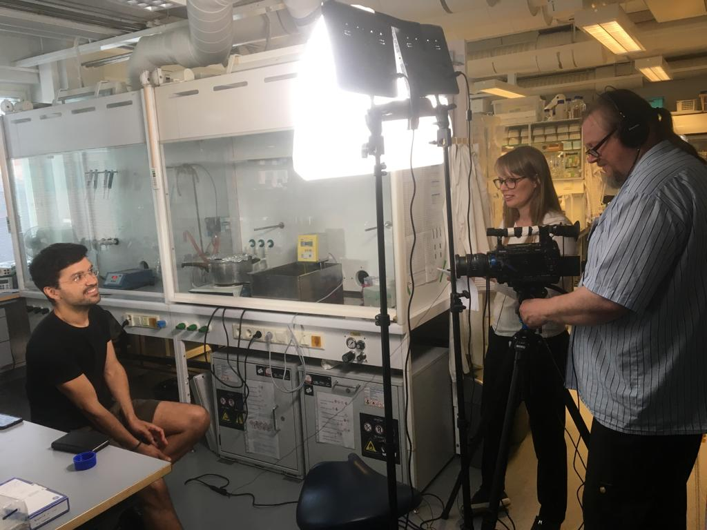 Photo of documentarist / journalist Nina Pulkkis